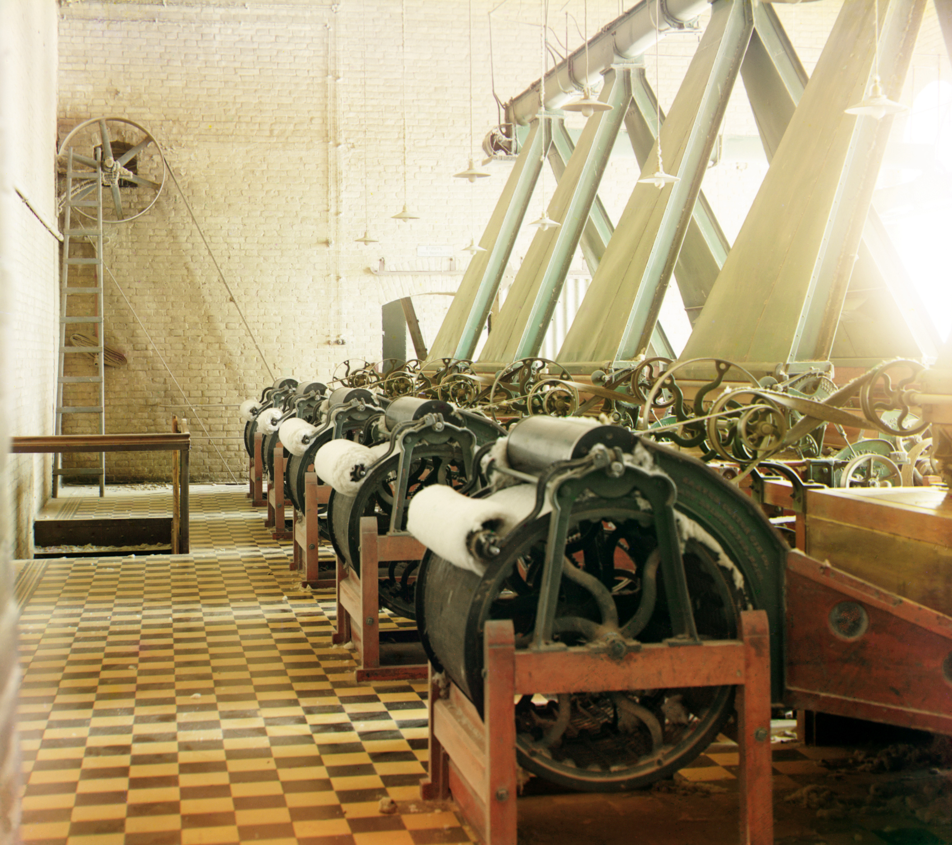 Cotton textile mill interior with machines producing cotton thread, probably in Tashkent